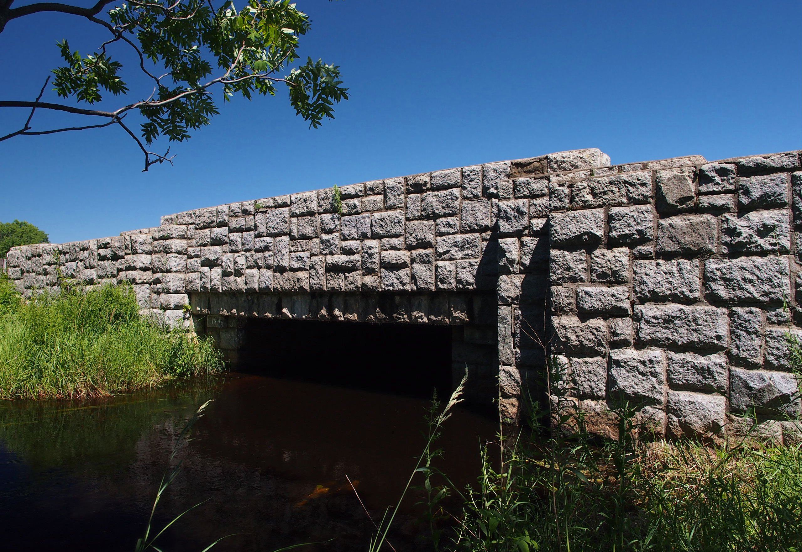 Bridge 3355, U.S. Route 169, Kathio Township, Minnesota, USA. Viewed from the southwest.